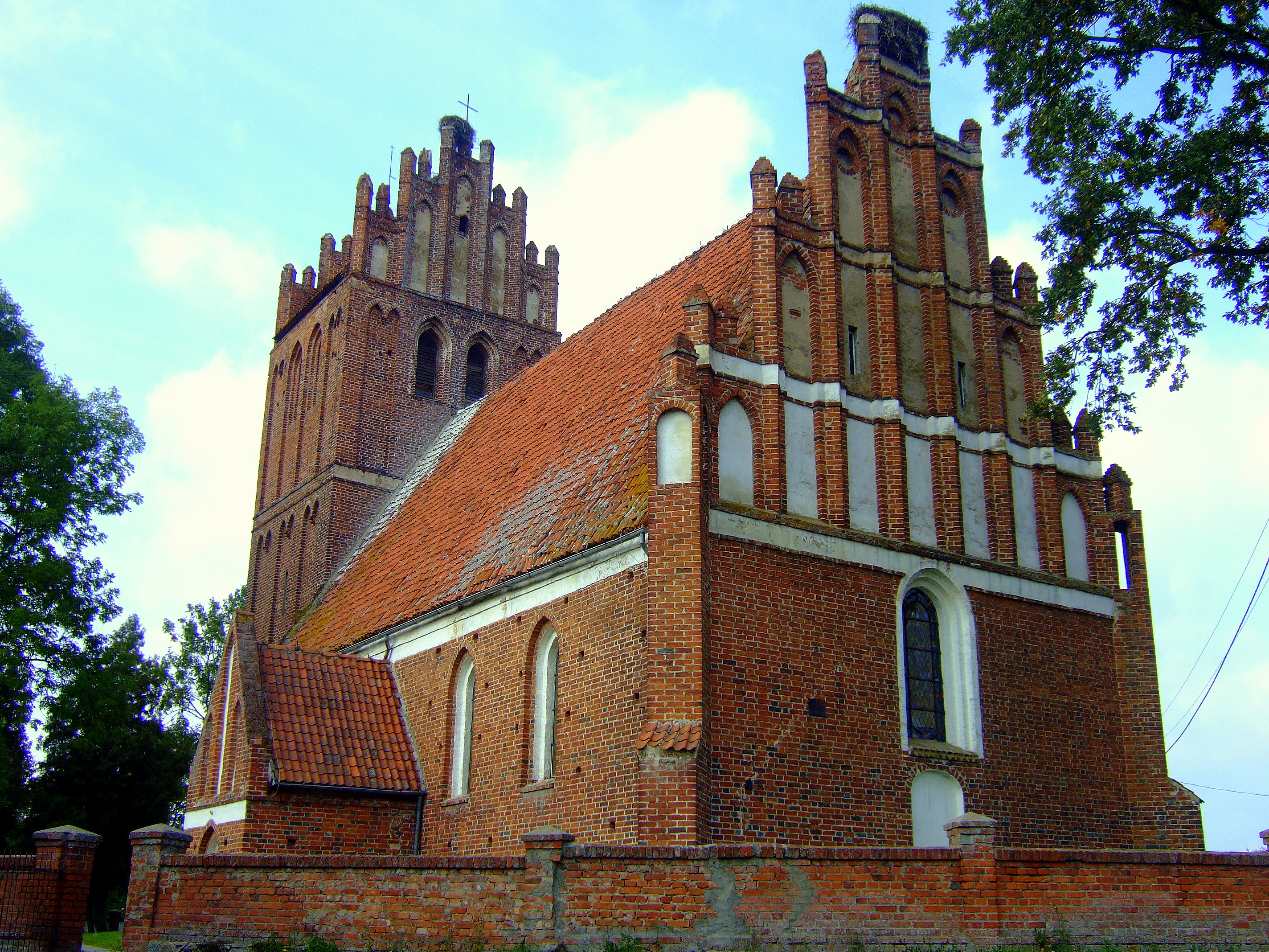 St Anne's Church in Sokolica in Warmian-Masurian Voivodeship in Poland (XIV)